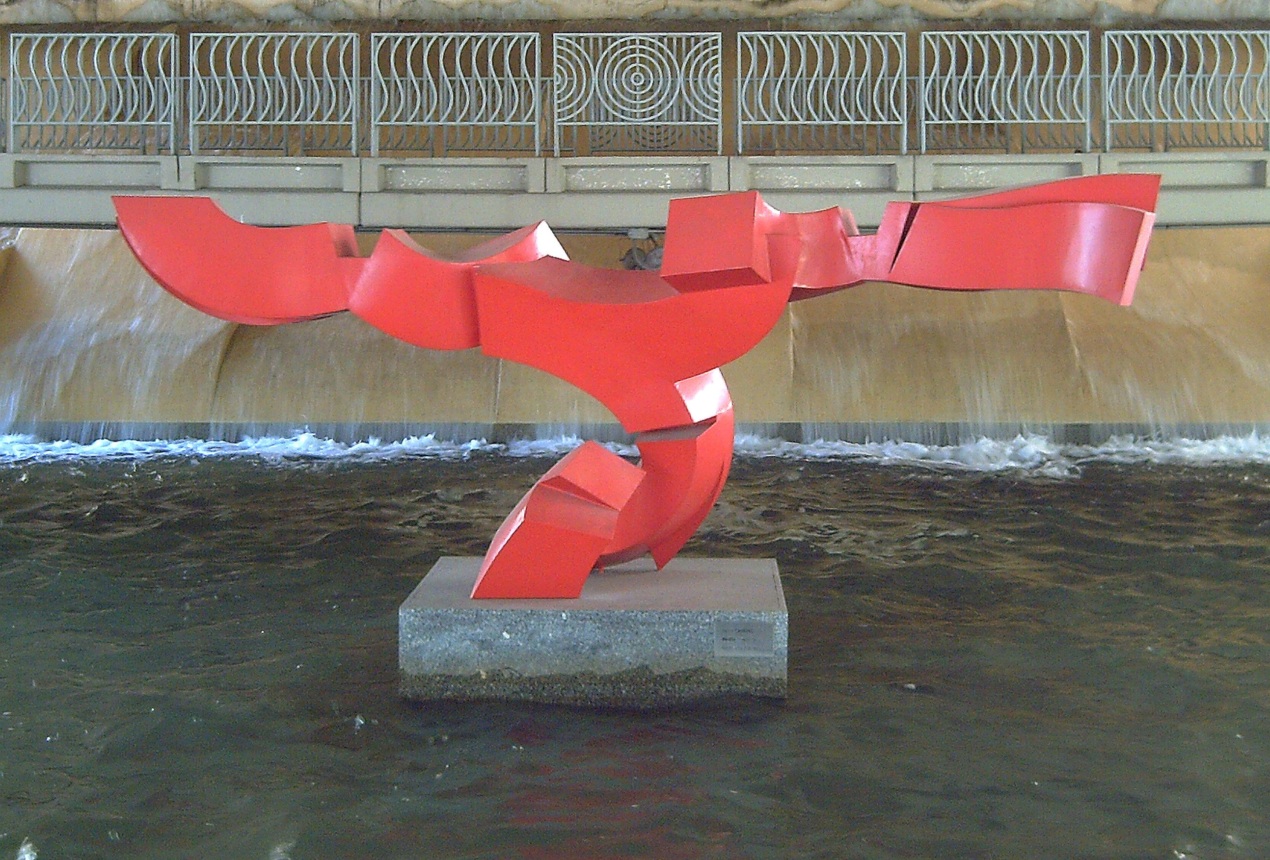 Mediterránea (1972). Sculpture by Martín Chirino (b. 1925). Duco painted steel. 150 x 370 x 50 cm (aprox.). At the Open-Air Sculpture Museum, 41st Paseo de la Castellana, Madrid (Spain).